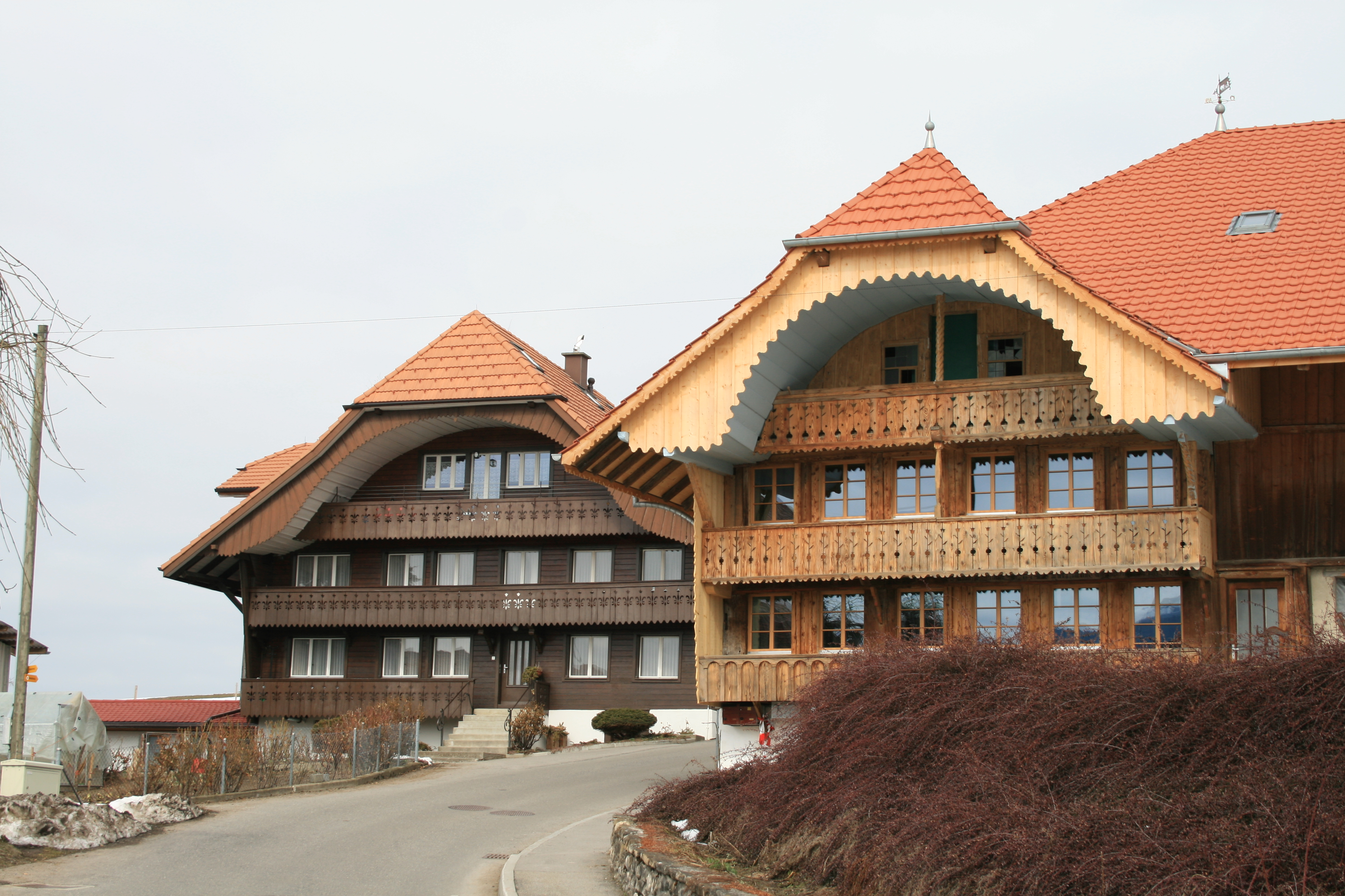 The village of Rechthalten FR, Switzerland